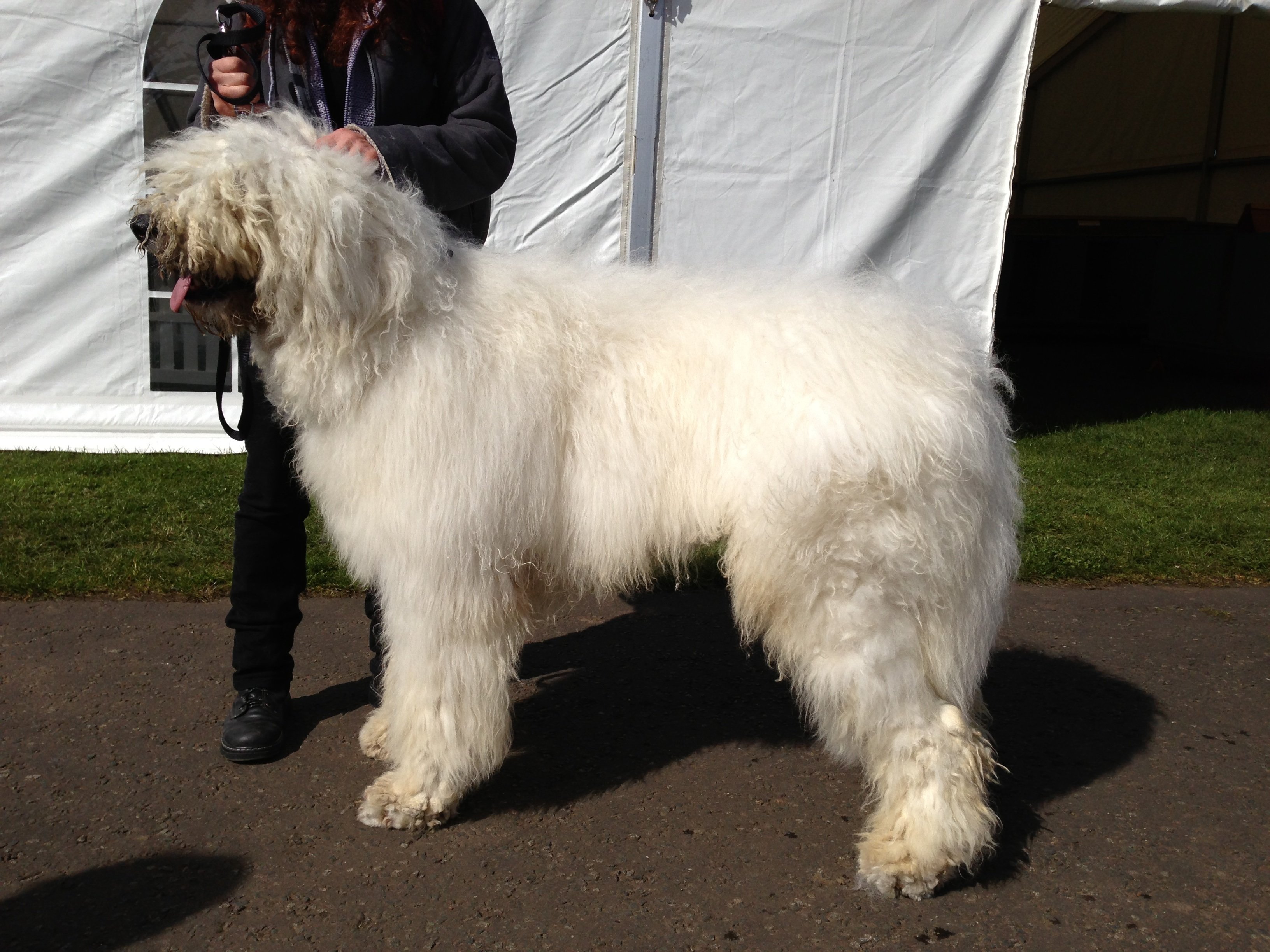 One year old male Komondor